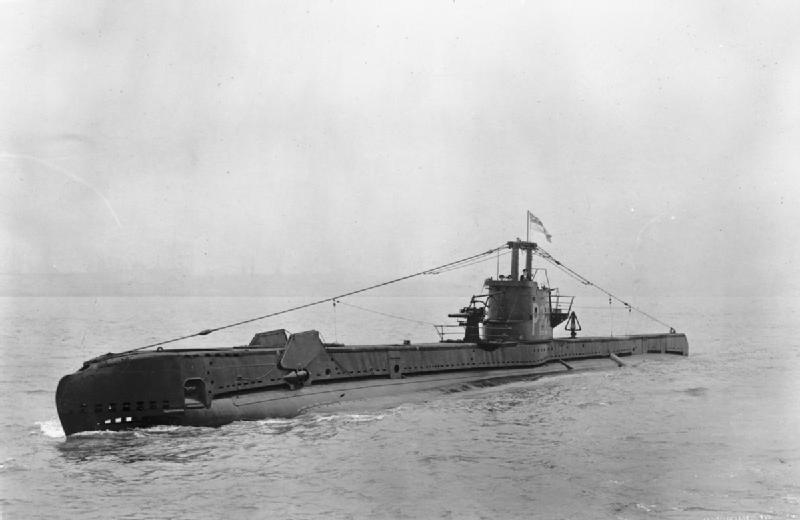 British S class submarine HMSM SICKLE underway.